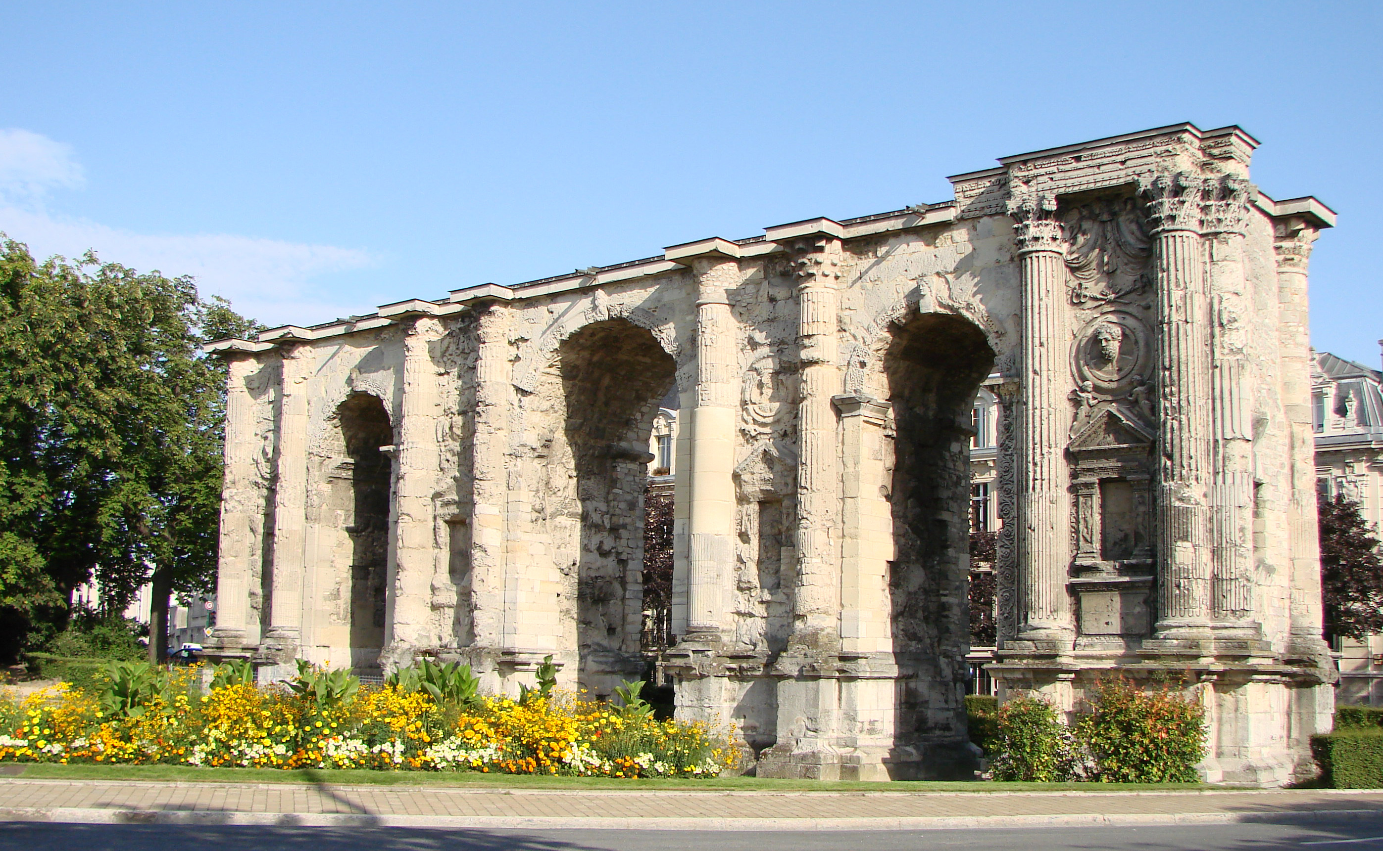 La Porte Mars (the Mars Gate), triumphal arch of the Gallo-Roman town (Durocortorum); 3rd century; Reims, France.